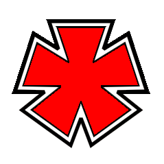 Union Army, XXII Corps, 1st Division Badge